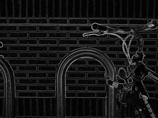 Grayscale image of a brick wall & bike rack convolved with a Sobel operator.